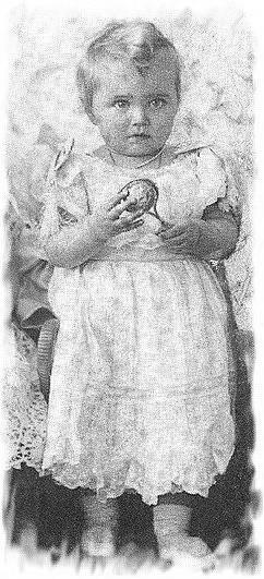 Grand Duchess Maria Nikolaevna of Russia as a toddler.